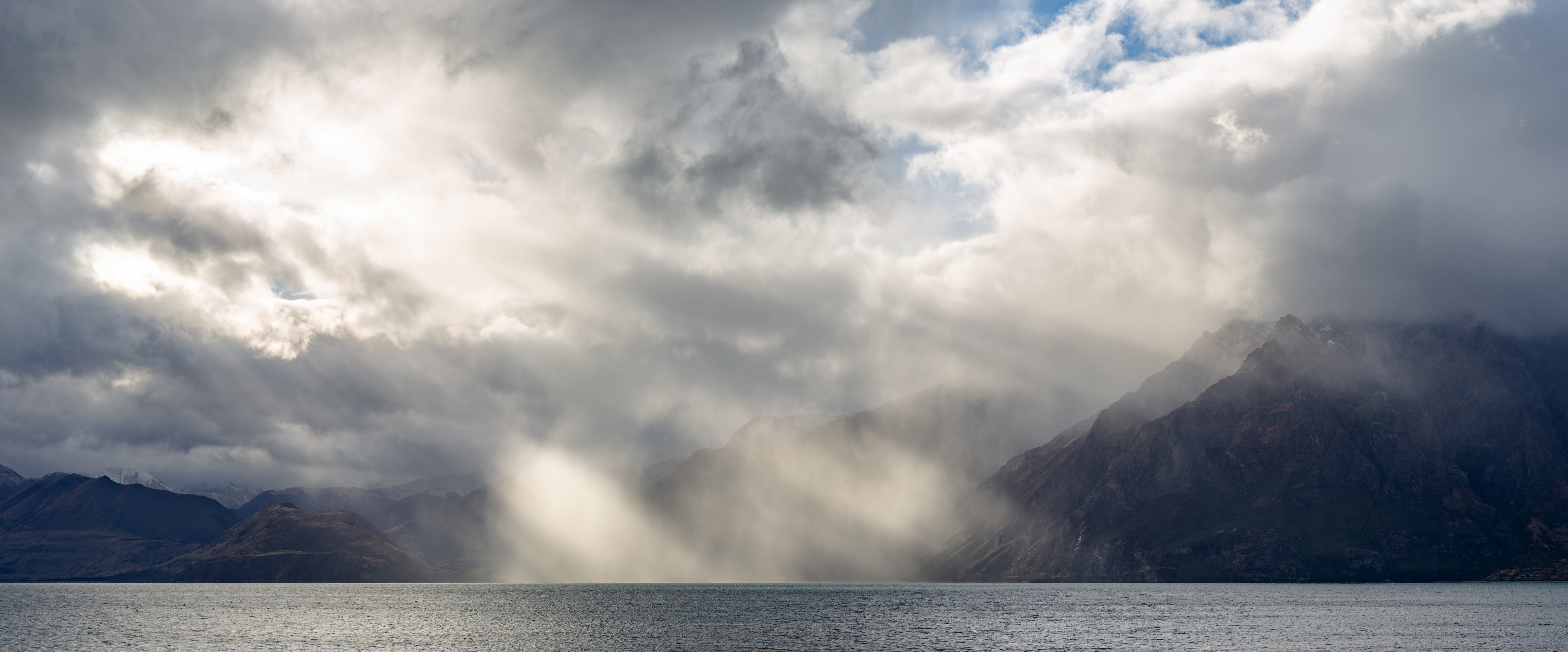 Sun over Lake Hāwea, Otago, New Zealand